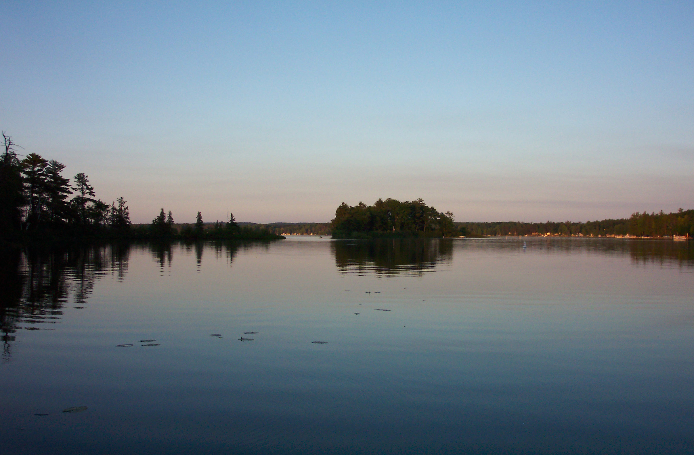 A photo of Fife Lake from the water at sunset, facing west towards Helen Island.